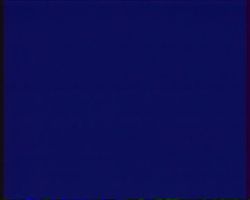 A blue screen